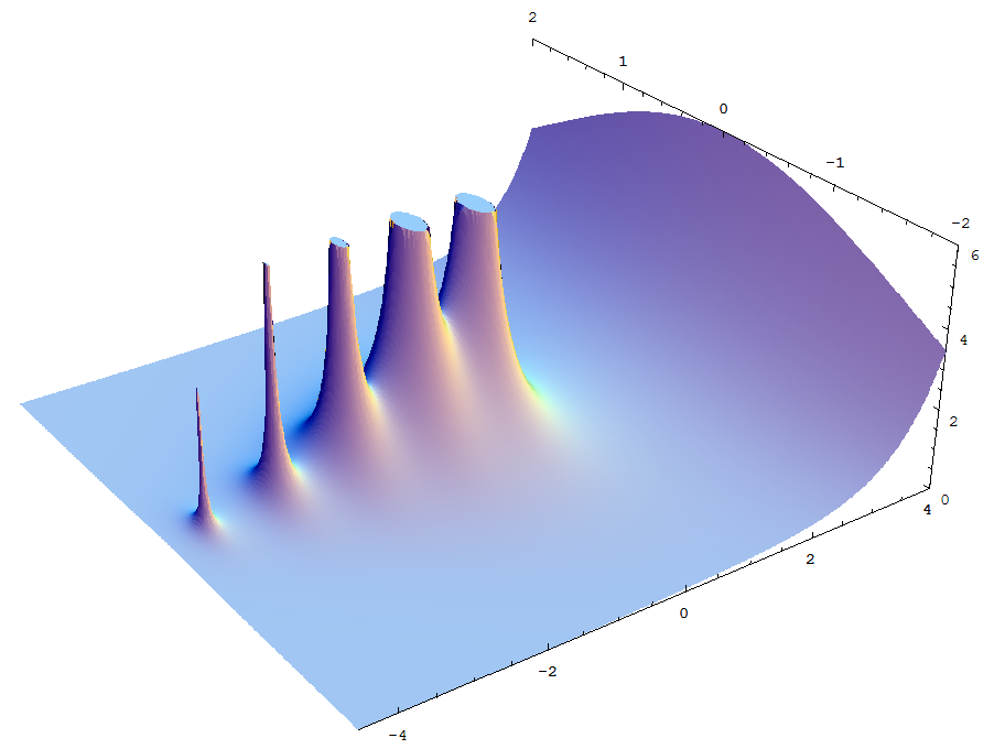 Absolute value of the gamma function in the complex plane